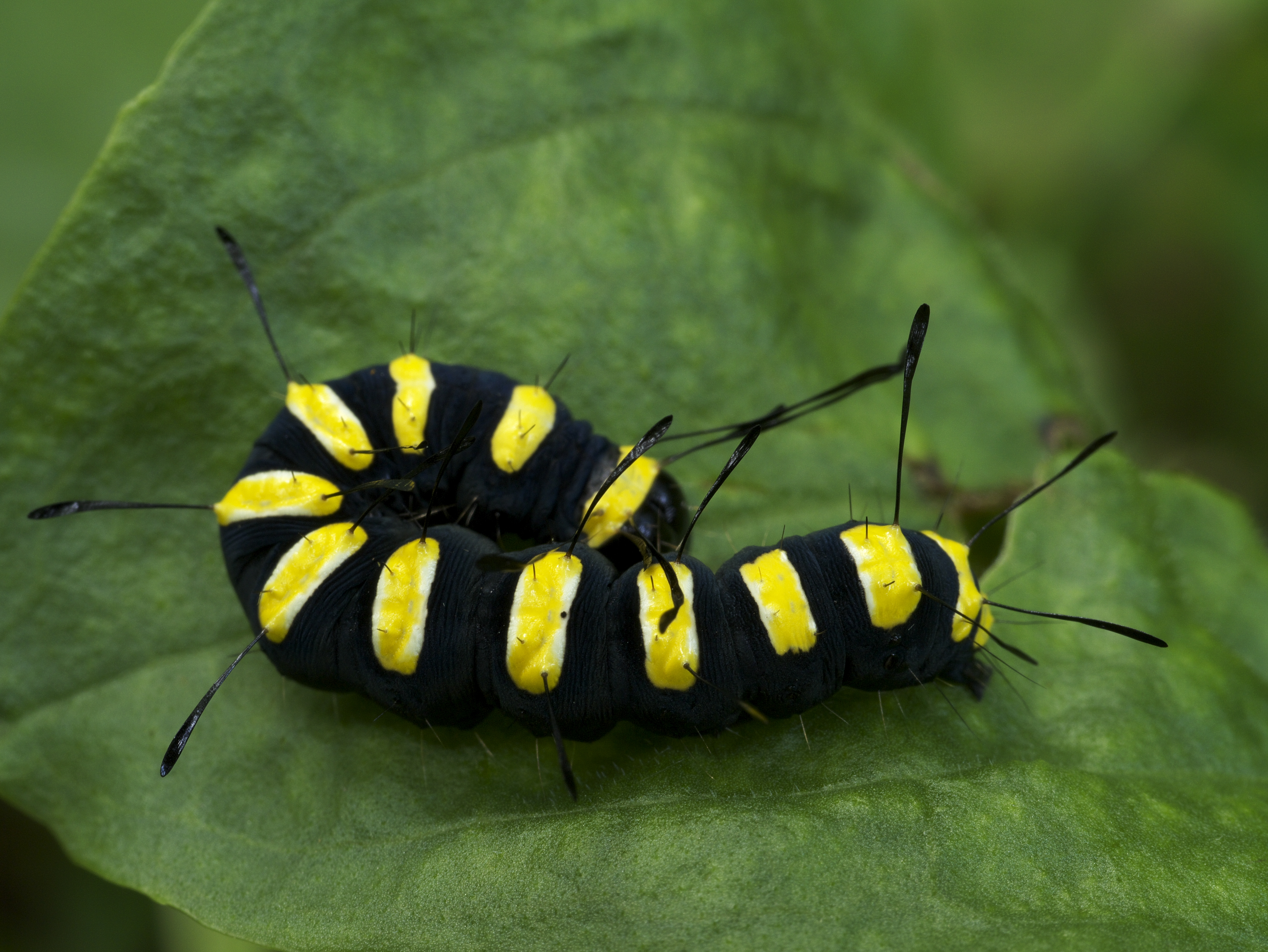 Acronicta alni